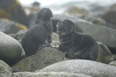 Fur seal pups from St. Paul Island by USFWS